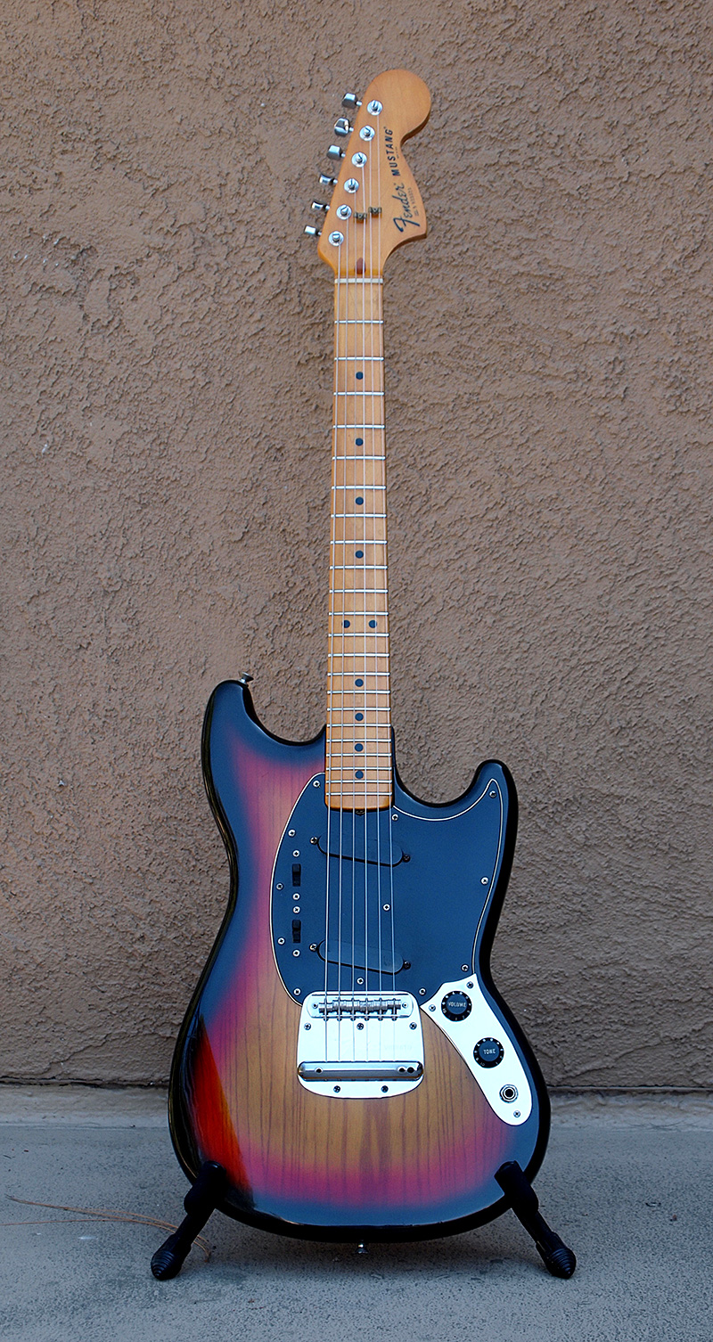 Stock late 70s Mustang with one-piece maple neck.